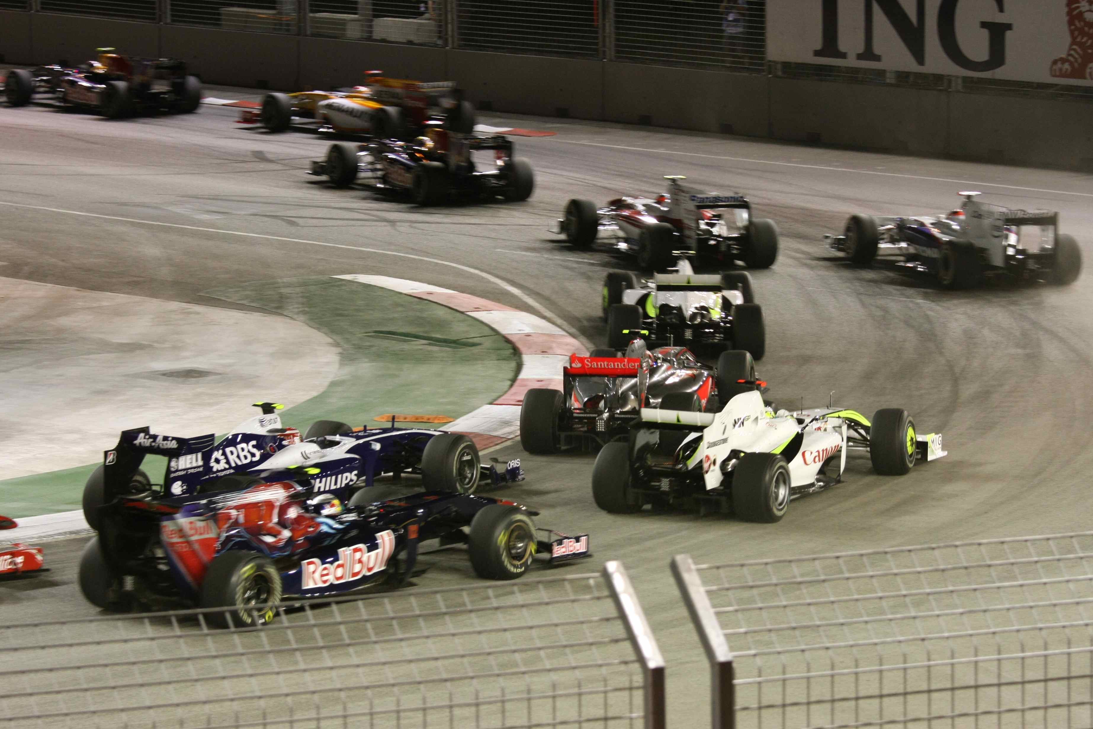 The start of the 2009 Singapore Grand Prix.